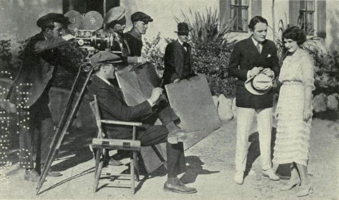 Basil Sydney and May Collins on a silent film set, published next to page 50 in Breaking into the Movies, 1921, John Emerson and Anita Loos, G. W. Jacobs. The crew is using sun reflectors to put more light on the faces of the actors. On the set of Red Hot Romance (1922), with director Victor Fleming seated with cap.